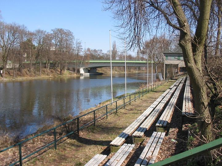 „Berlin-Spandauer Schifffahrtskanal“. Course at General-Ganeval-Brücke